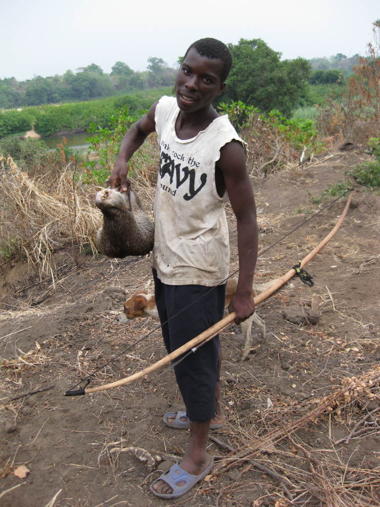 Hunter with a cane rat in Buzi district of Mozambique